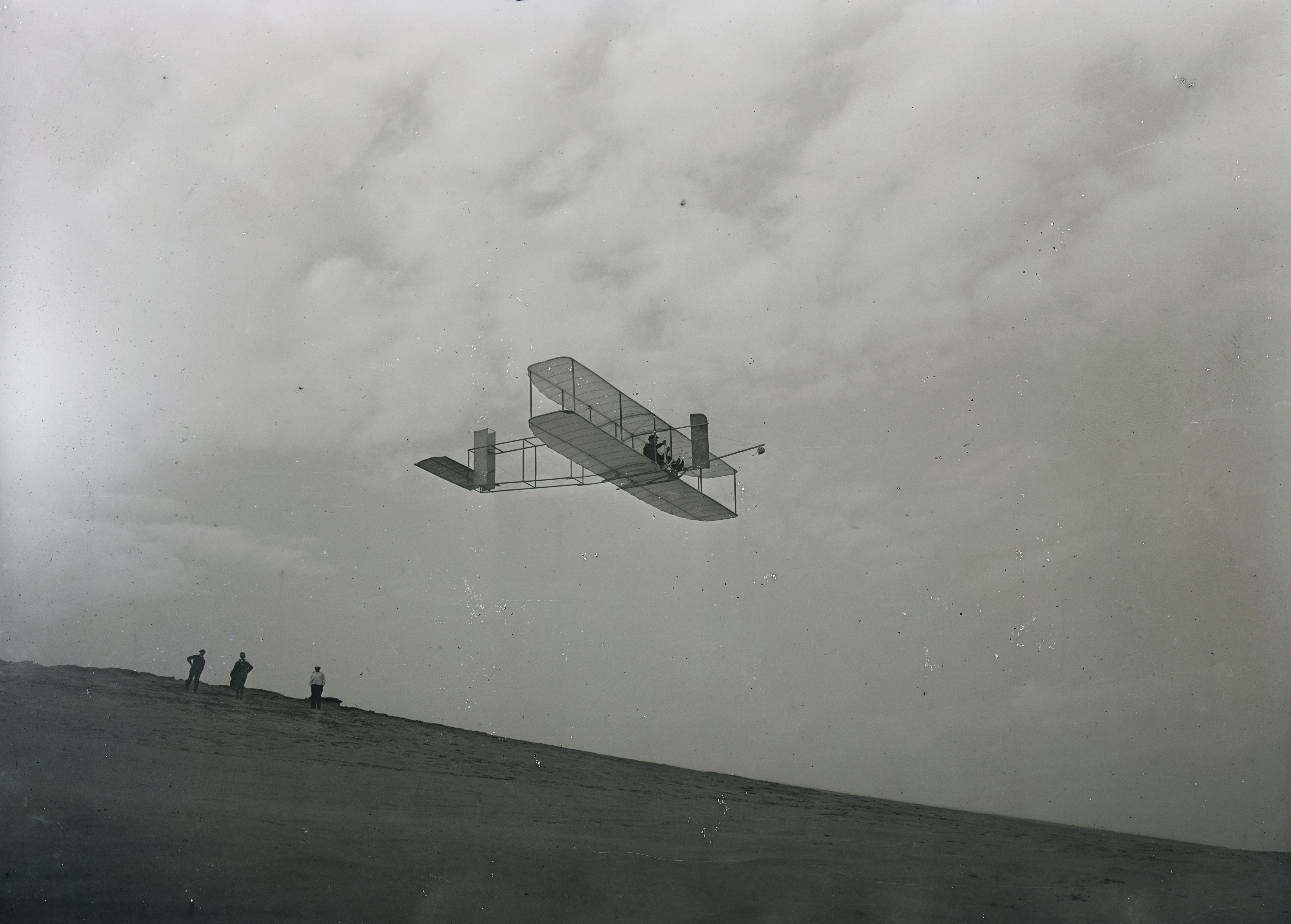 Cropped version of image from Library of Congress Wright Photographs.[1] Bibliographic information from that site: TITLE: [Right front view of glider in flight] CALL NUMBER: LC-W86- 101 [P&P] REPRODUCTION NUMBER: LC-DIG-ppprs-00692 (digital file from original) LC-W861-101 (b&w film copy neg.) No known restrictions. MEDIUM: 1 negative : glass, dry plate ; 5 x 7 in. CREATED/PUBLISHED: [1911] RELATED NAMES: Wright, Wilbur, 1867-1912, photographer. Wright, Orville, 1871-1948, photographer. NOTES: Title from: Wilbur & Orville Wright, pictorial materials: a documentary guide / Arthur G. Renstrom. Washington: Library of Congress, 1982, p. 116. Attributed to Wilbur and/or Orville Wright. Reference copy in LOT 11512. Orville, accompanied by his brother Lorin, his nephew Horace, and his friend Alexander Ogilvie, of England, arrived for the purpose of conducting gliding experiments with a glider resembling the Wright 1911 powered machine but lacking its motor (Renstrom, p. 113). Forms part of: Glass negatives from the Papers of Wilbur and Orville Wright. SUBJECTS: Wright, Wilbur, 1867-1912. Wright, Orville, 1871-1948. Gliders--North Carolina--Kitty Hawk--1910-1920. Flight testing--North Carolina--Kitty Hawk--1910-1920. FORMAT: Dry plate negatives 1910-1920. PART OF: Glass negatives from the Papers of Wilbur and Orville Wright REPOSITORY: Library of Congress Prints and Photographs Division Washington, D.C. 20540 USA DIGITAL ID: (original) ppprs 00692 CARD #: 2001696622